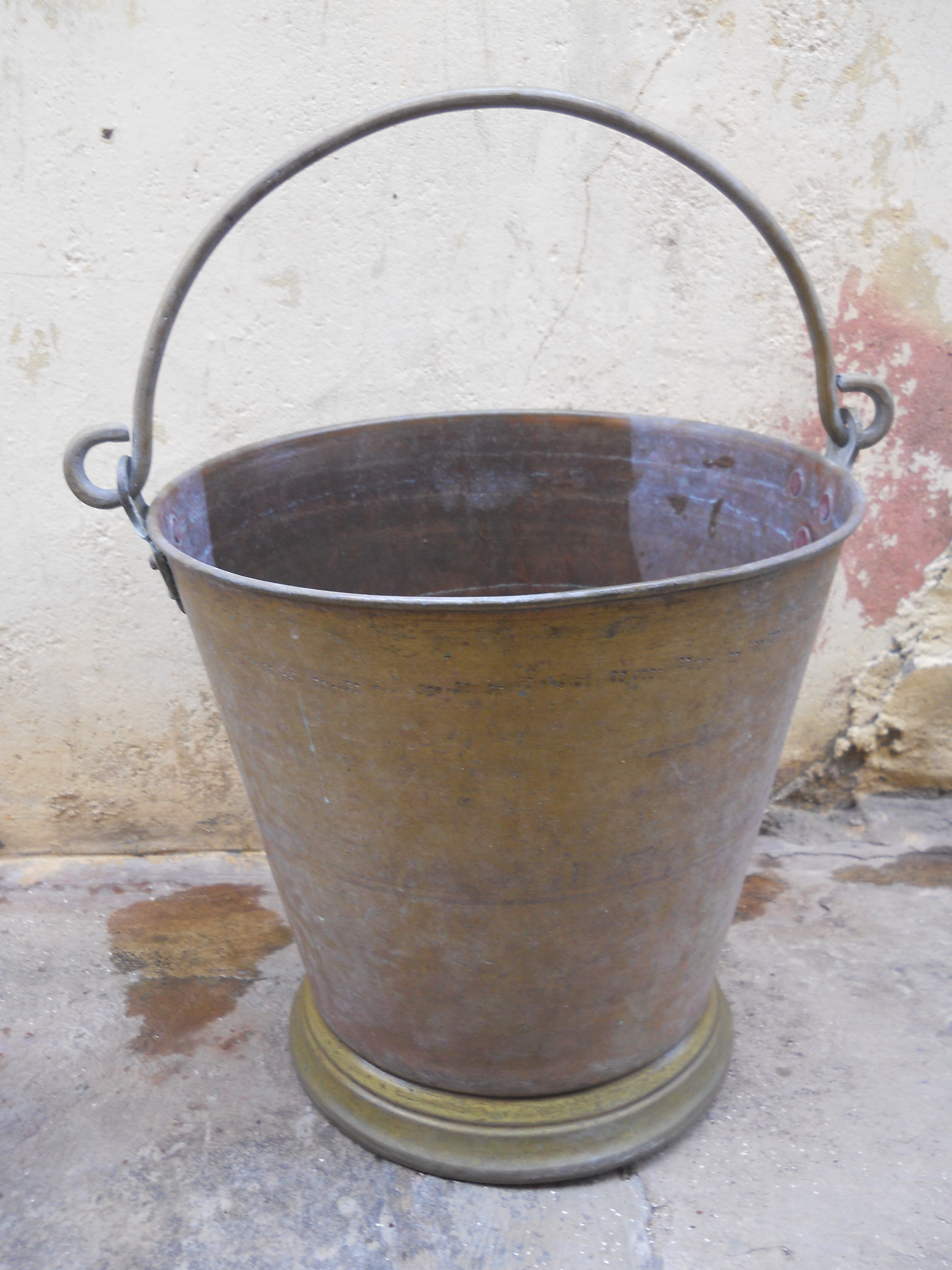 Bucket